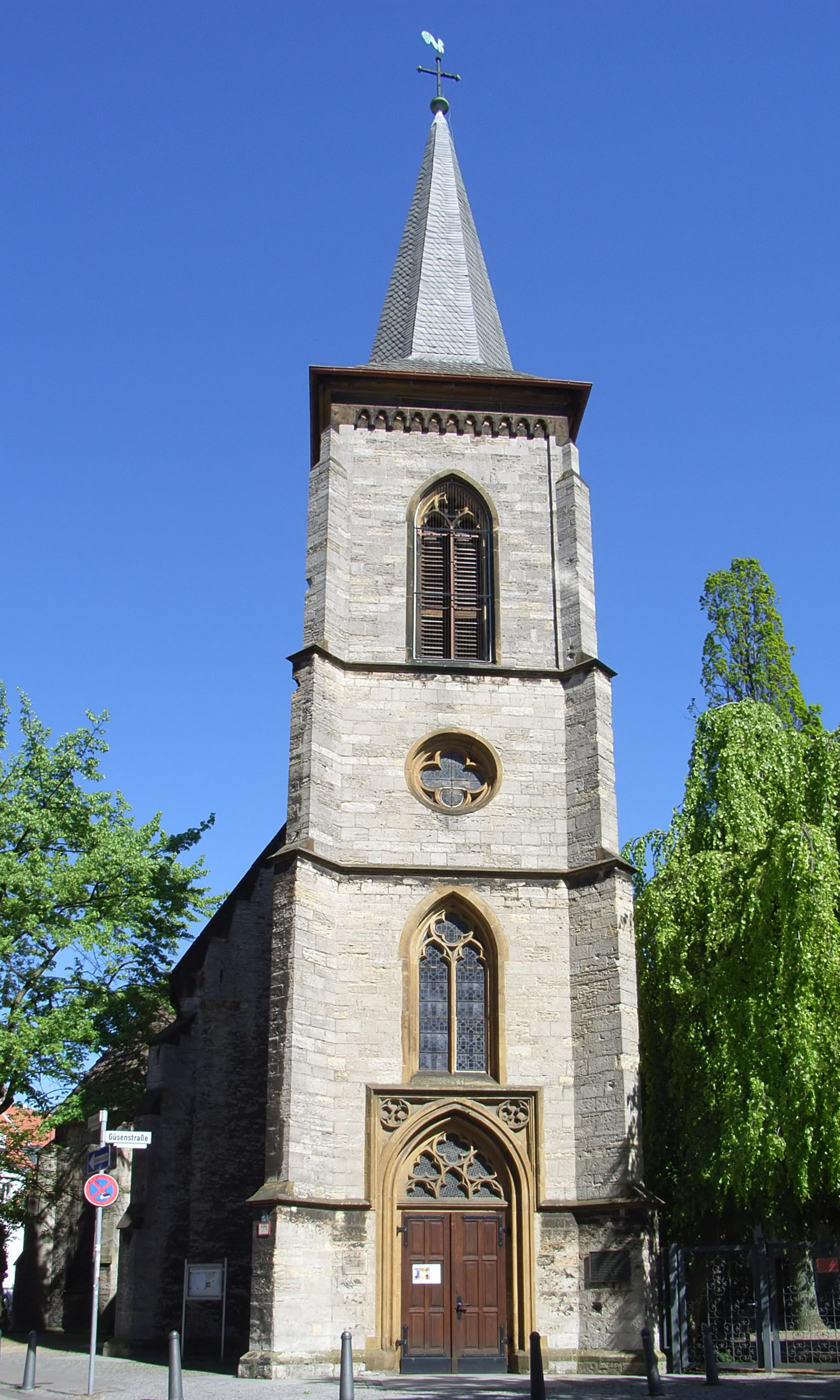 Bielefeld, Germany: Süsterkirche